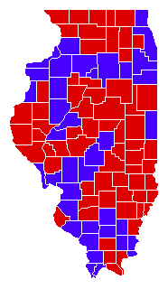 Results by county, 2006, for State Treasurer of Illinois